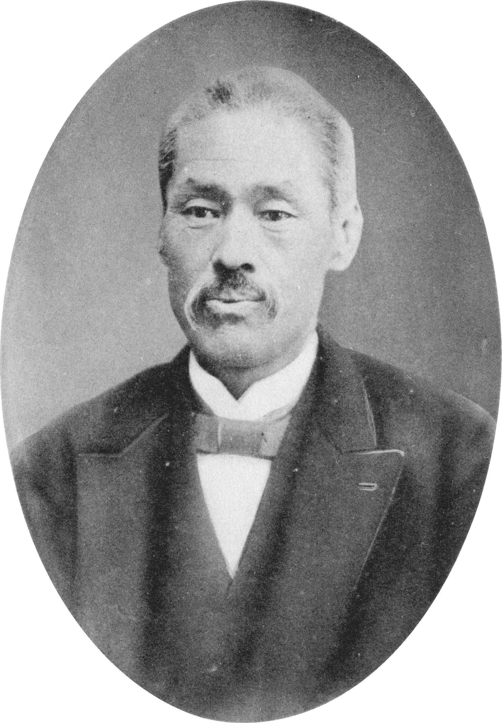 Katō Hiroyuki, president of the Departments of Law, Science and Literature in Tokyo University and the Imperial University.